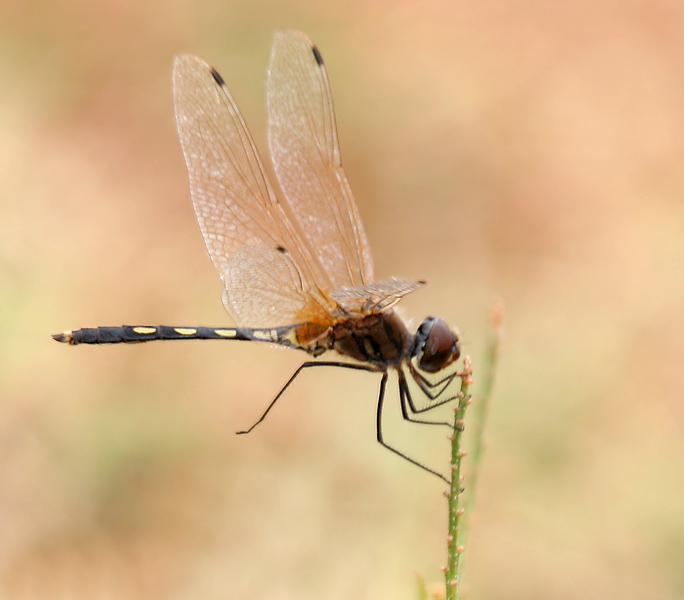 Long-legged Marsh Skimmer Trithemis pallidinervis in Hyderabad, India.